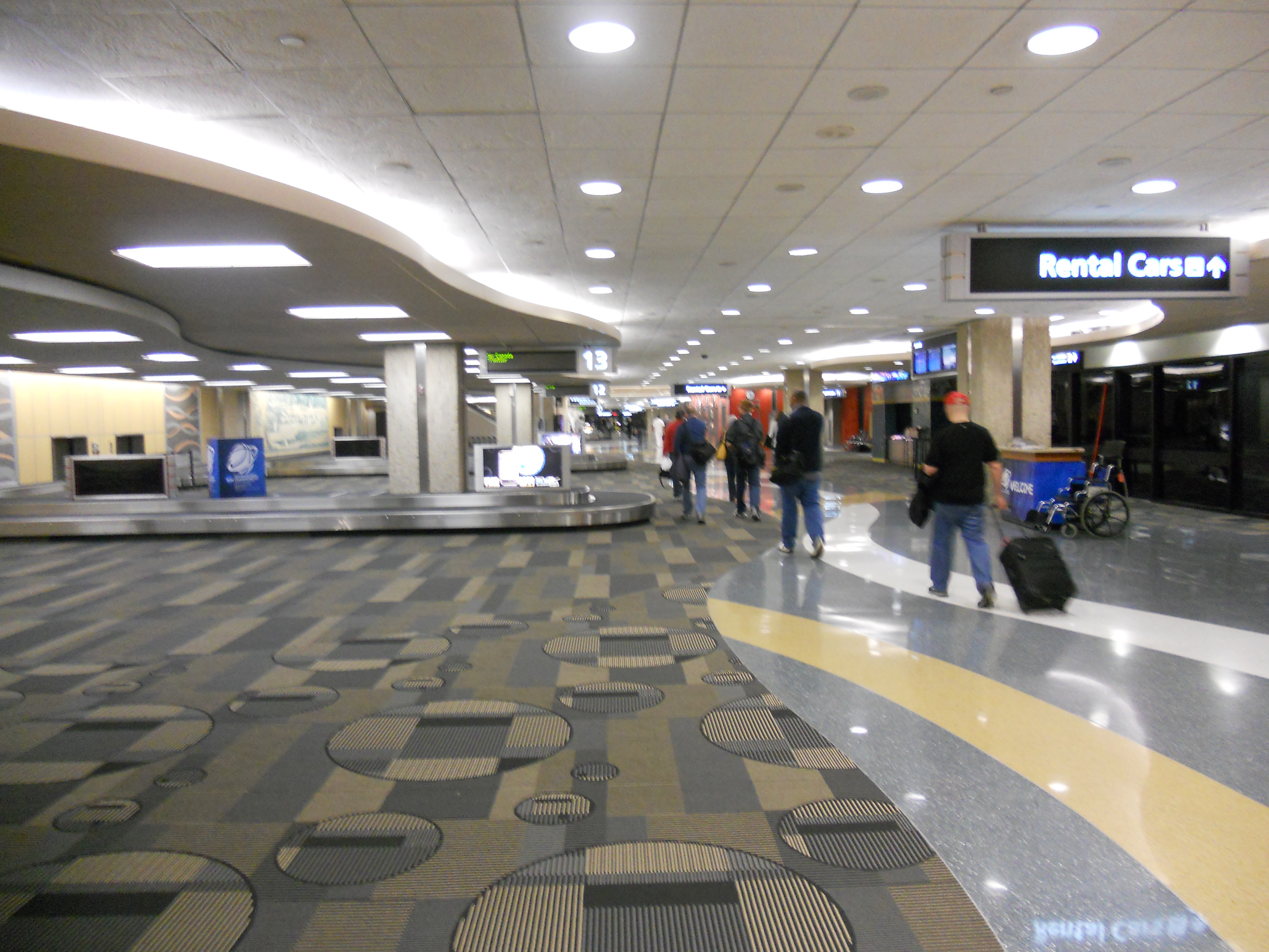 The Red Side Baggage Claim at Tampa International Airport.